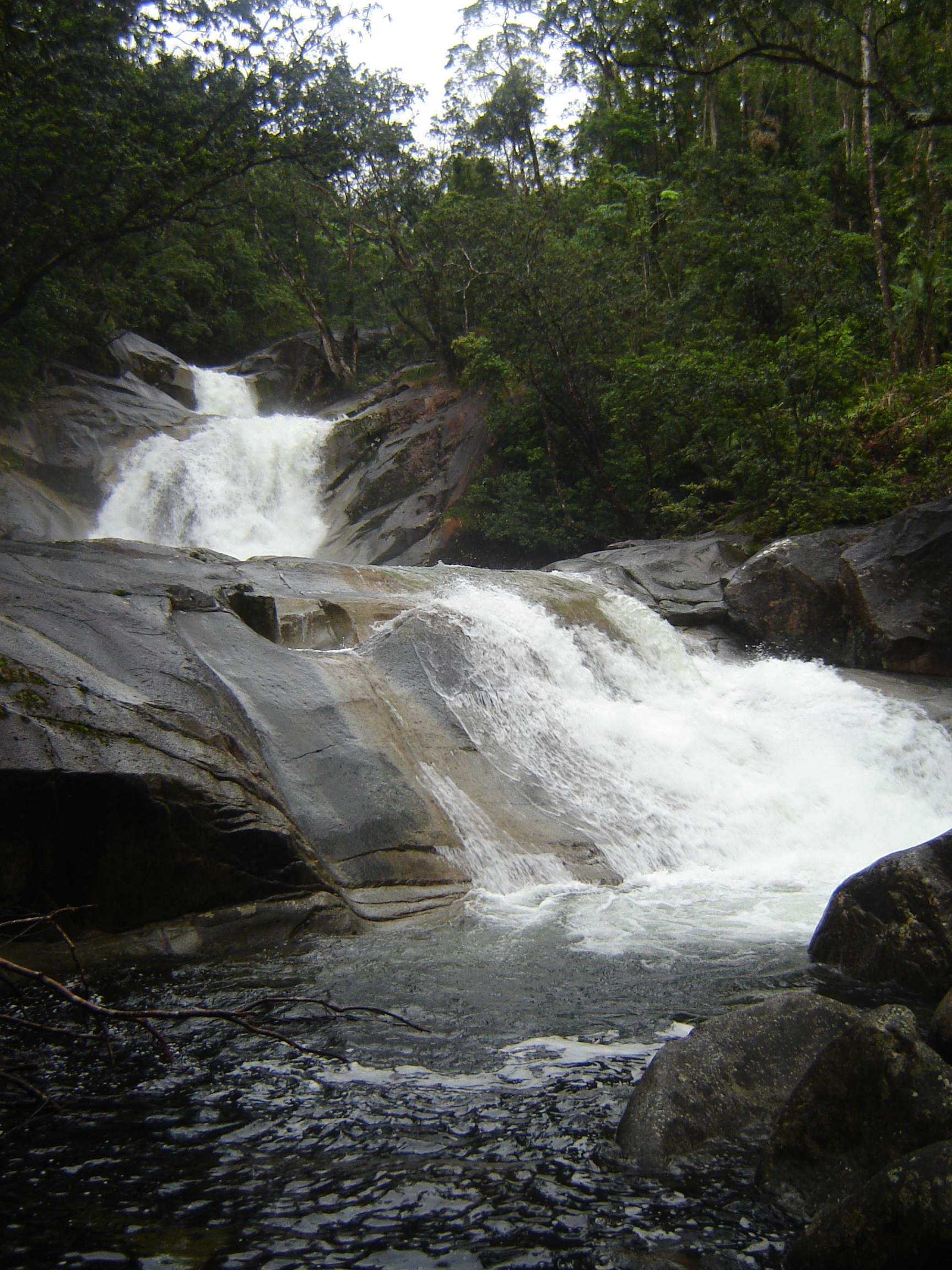 Josephine Falls. Photo taken by Frances76.